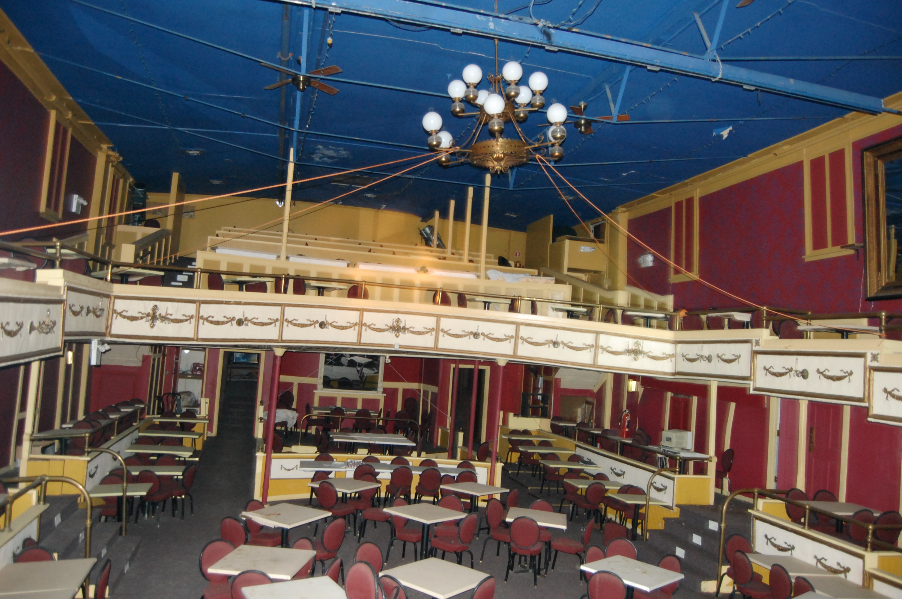 Standing on the Goldenrod stage looking out towards the balcony.